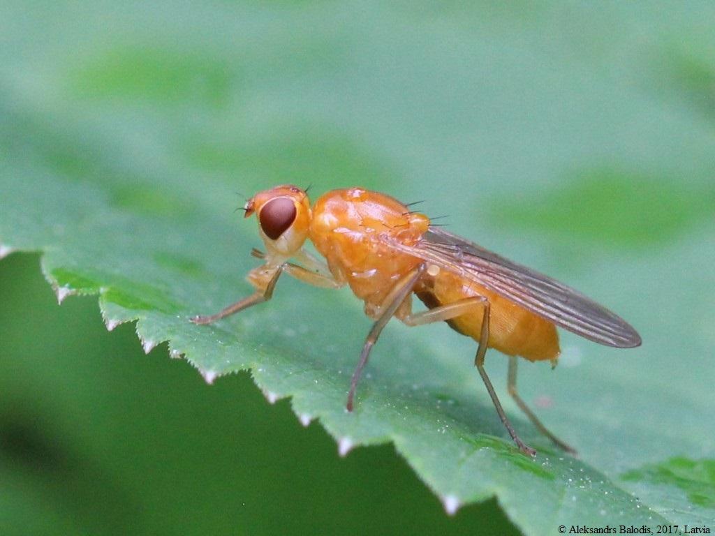 Psila fimetaria